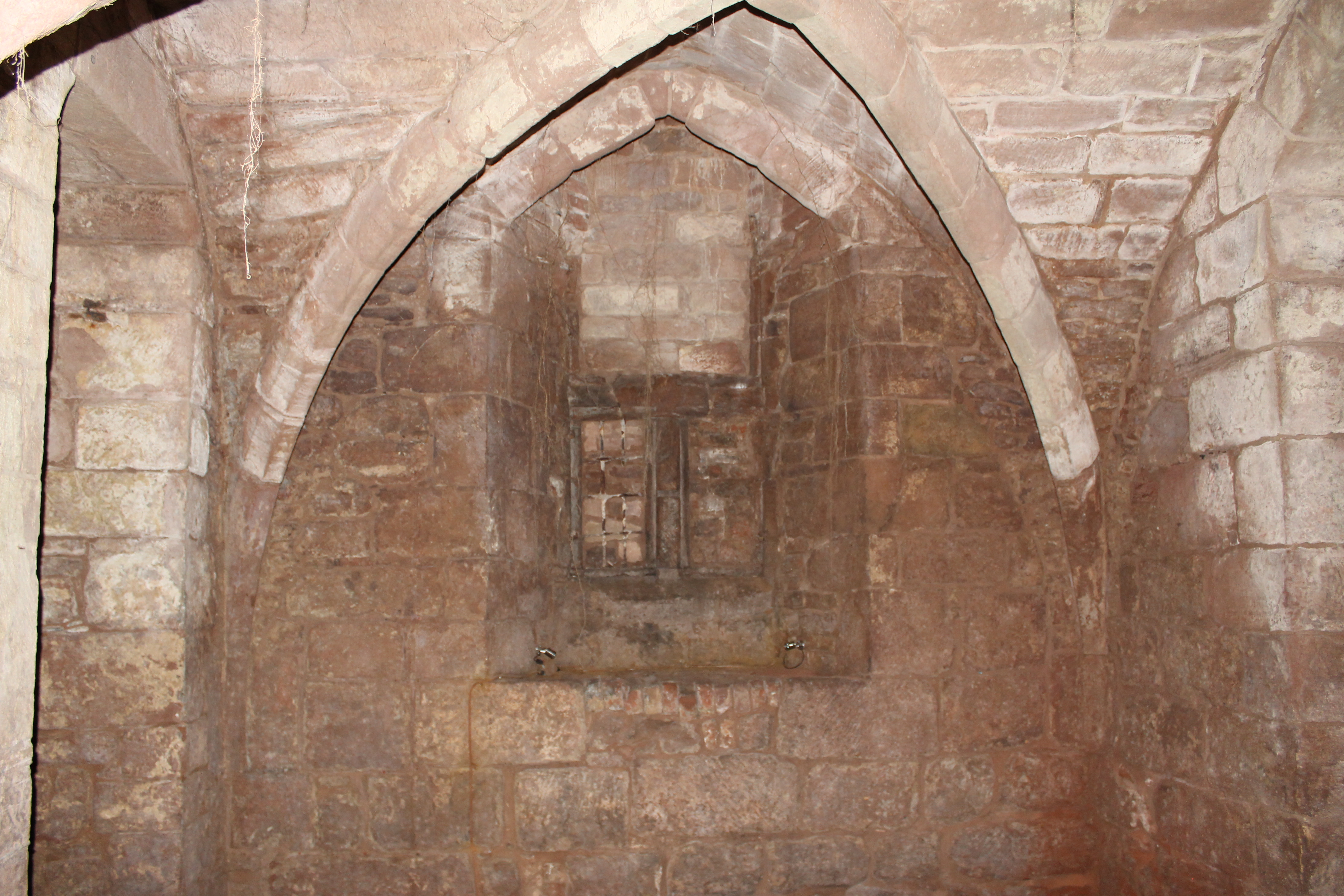 Detail of the Medieval Undercroft, formerly 38-39 Bayley Lane, accessible from Herbert Art Gallery and Museum, Coventry.